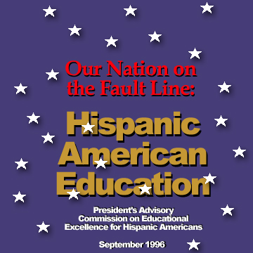 Cover of the September 1996 report, "Our Nation on the Fault Line: Hispanic American Education" by the President's Advisory Commission on Educational Excellence for Hispanic Americans